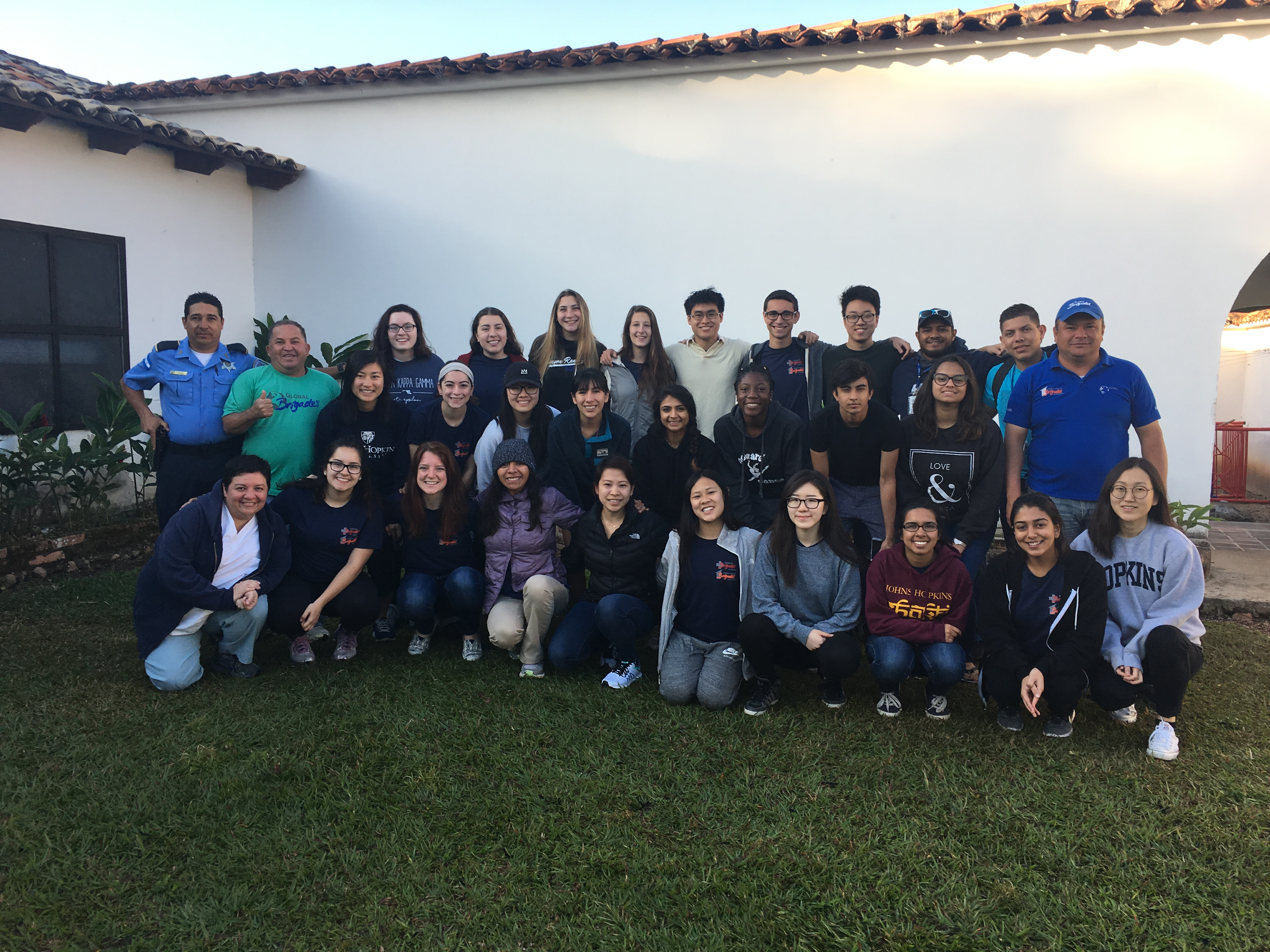 The JHU chapter of Global Medical Brigades after their brigade in 2017.